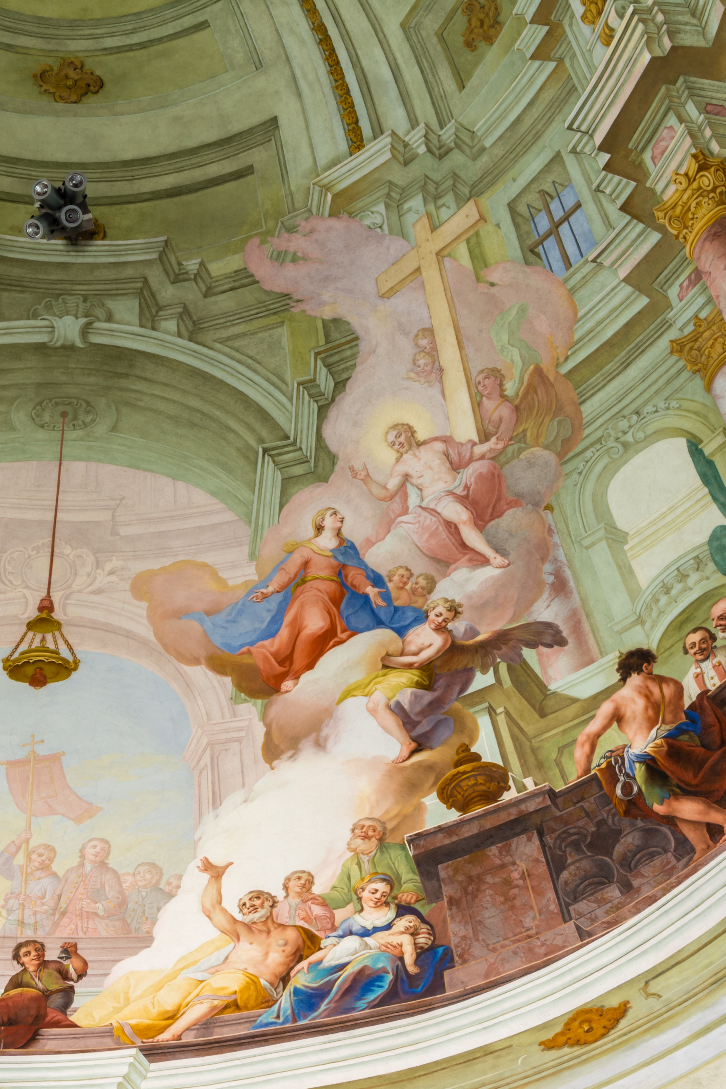 Dome fresco in the pilgrimage church of Maria Langegg (Lower Austria) by Josef Adam Mölk (1773): Mary, Salvation of the Sick (detail)